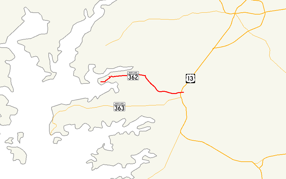 Map of Maryland 362